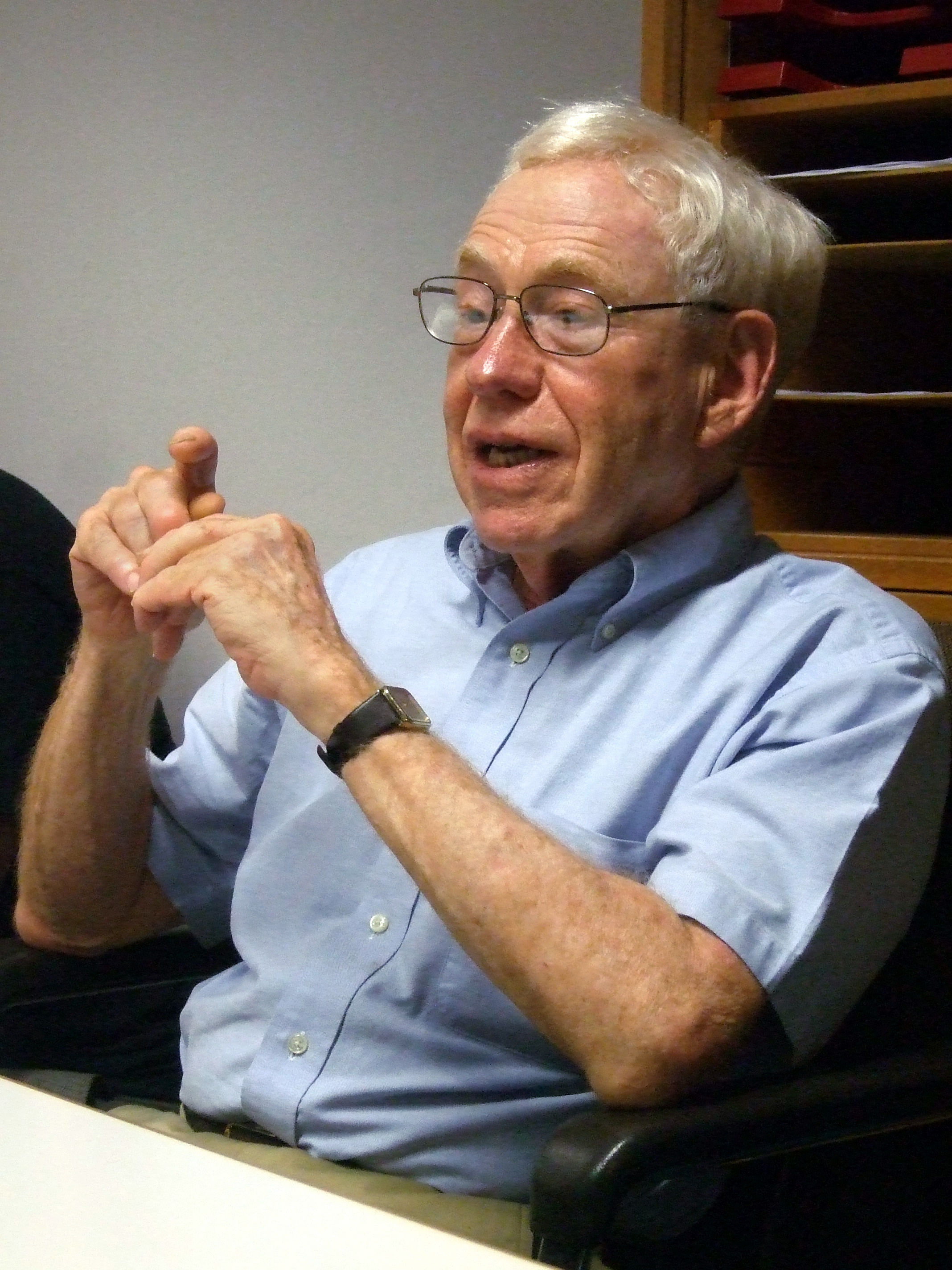 American philosopher Hubert Dreyfus during an event at Ludwig Maximilian University of Munich